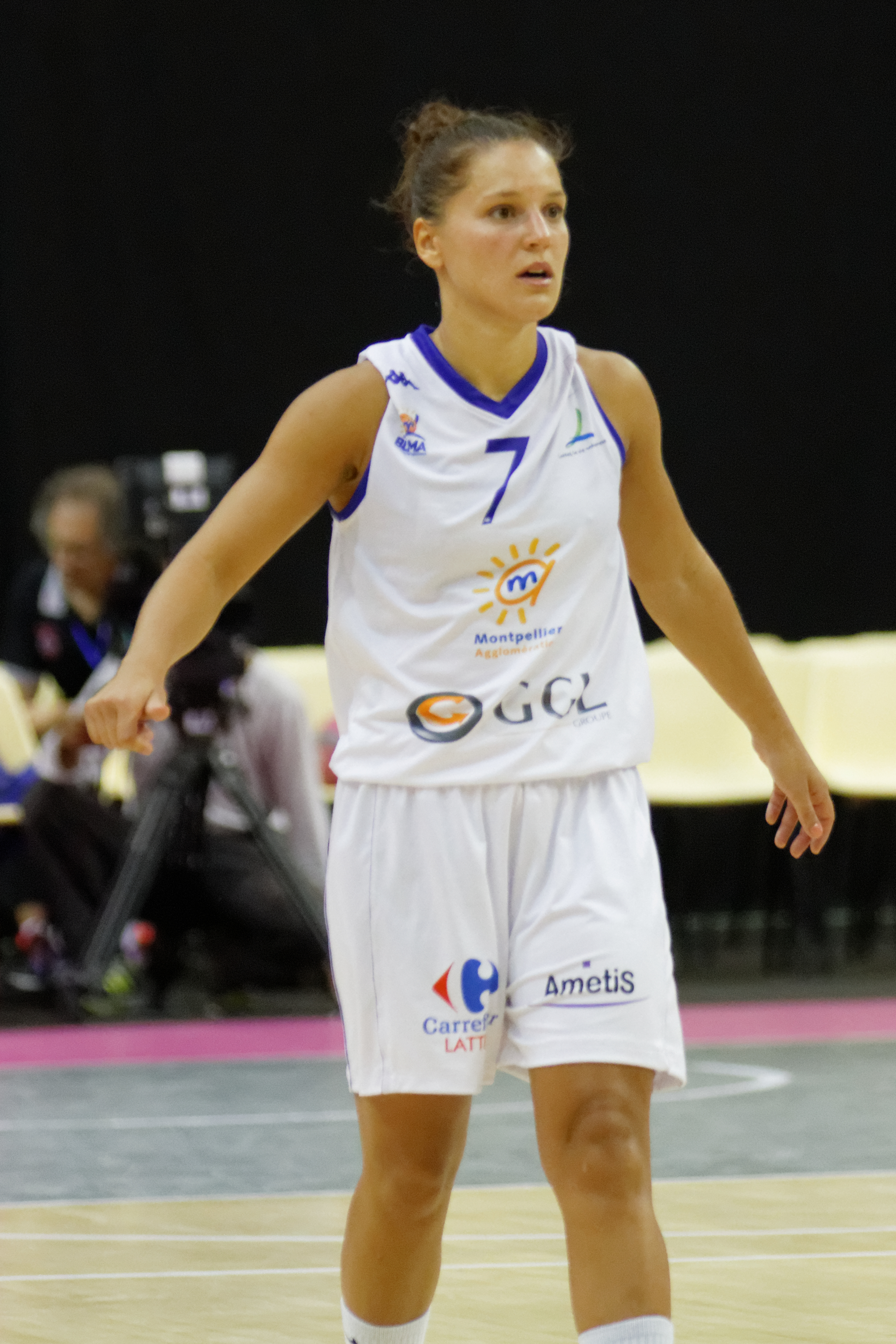 Open LFB, Lattes Montpellier-Nice, October 6th, 2013.